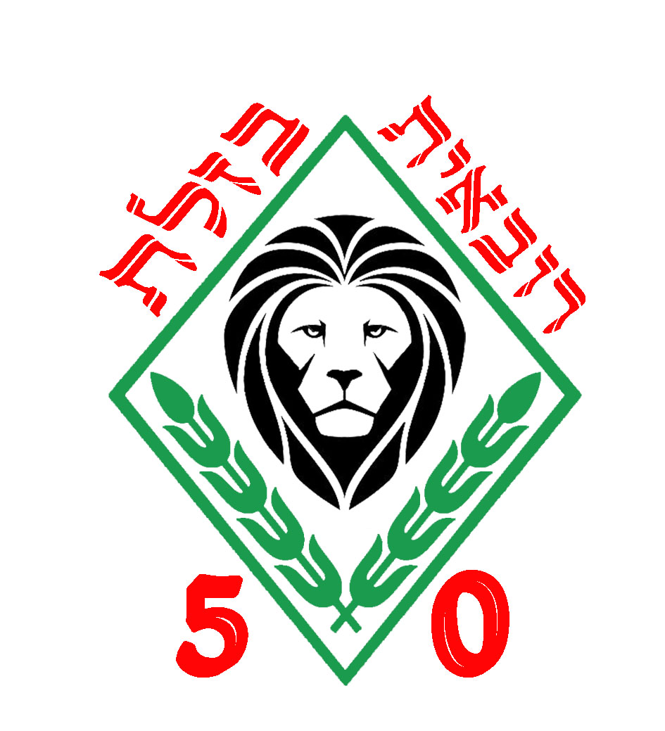 'Rovait' company 'Bazelet brigade